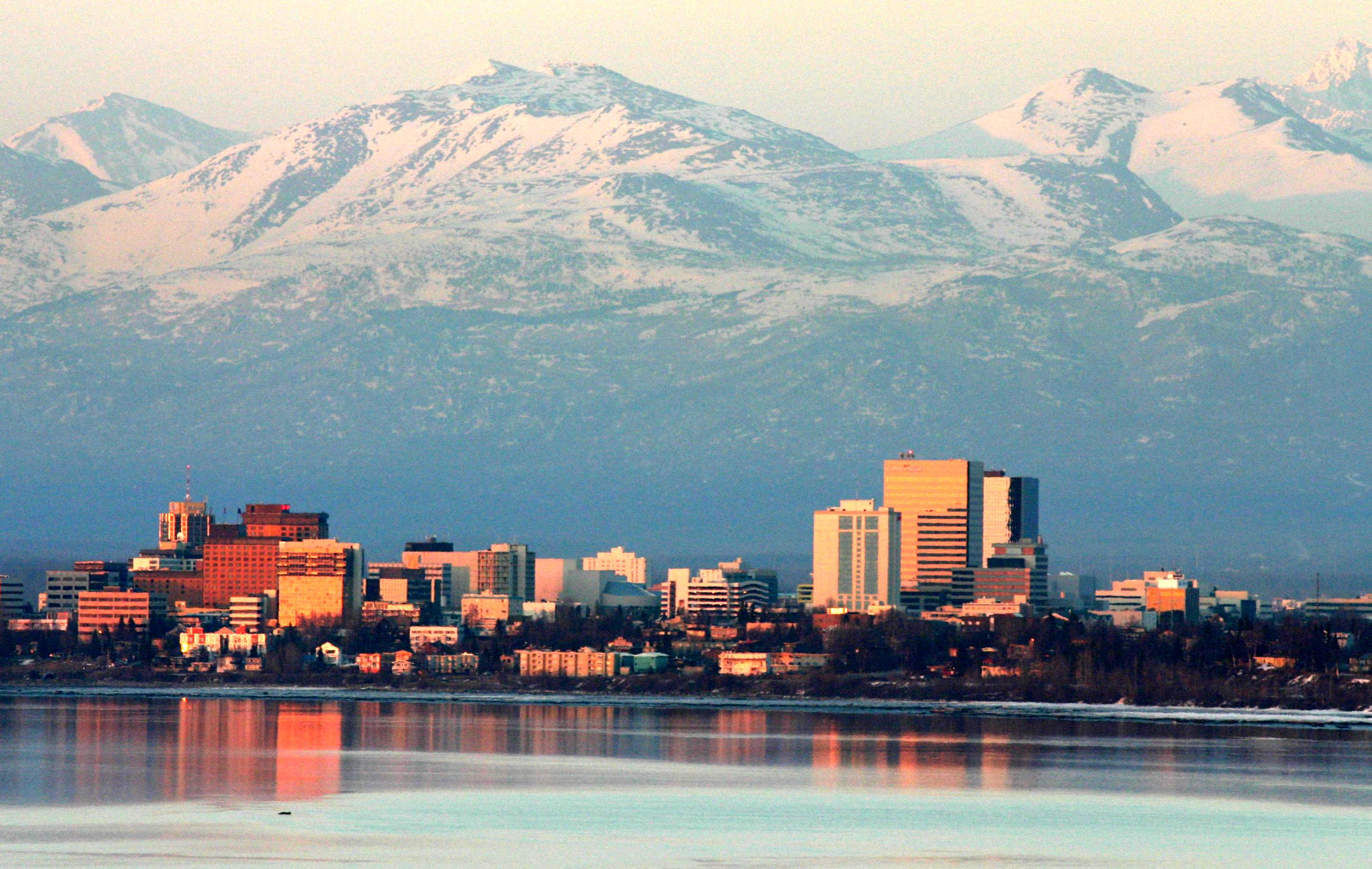 Taken at the end of April 2008 in Anchorage, Alaska.